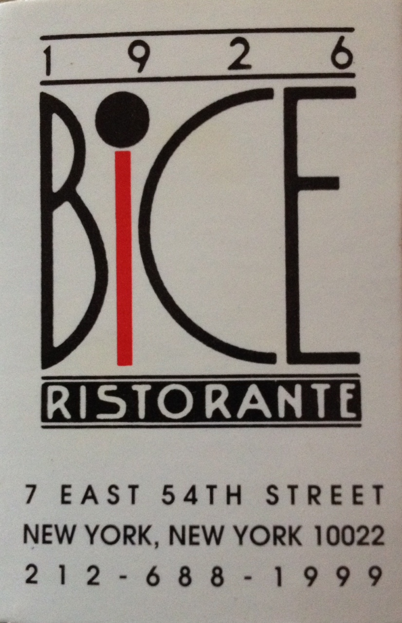 Matchbook from BiCE Ristorante, New York, New York